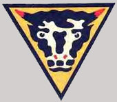 I suggest that this logo qualifies for use under condition 3, ie it was demonstrably in use during WWII Folks at 137 06:05, 26 May 2007 (UTC) Bulls head. 79th Armoured Division (United Kingdom)